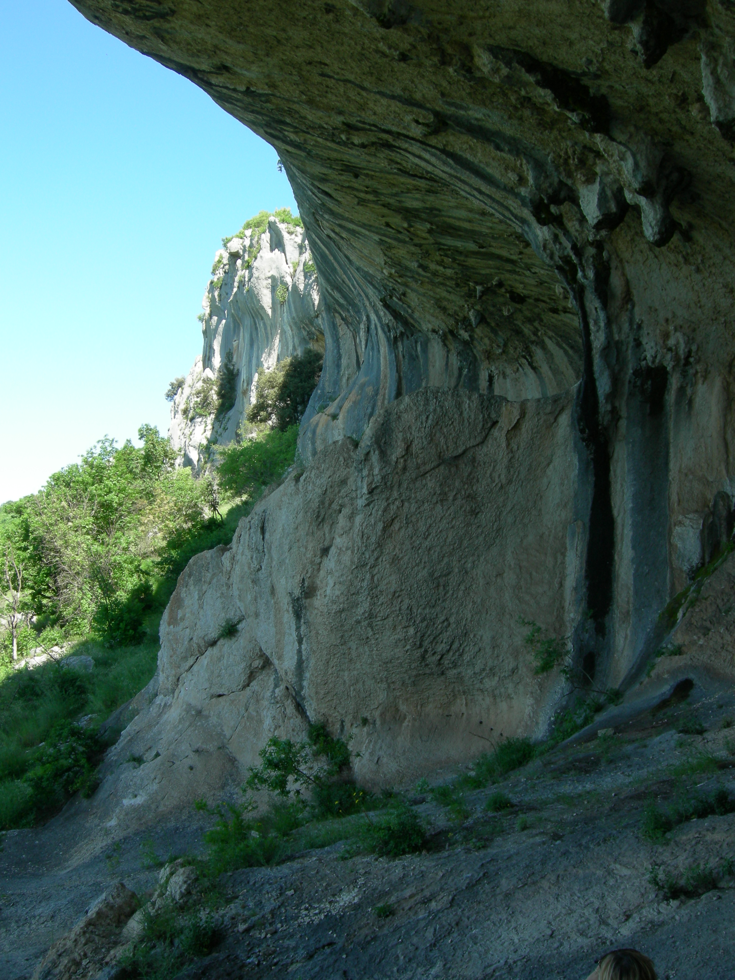 Karst ridge - rock shelter of Veli Badin